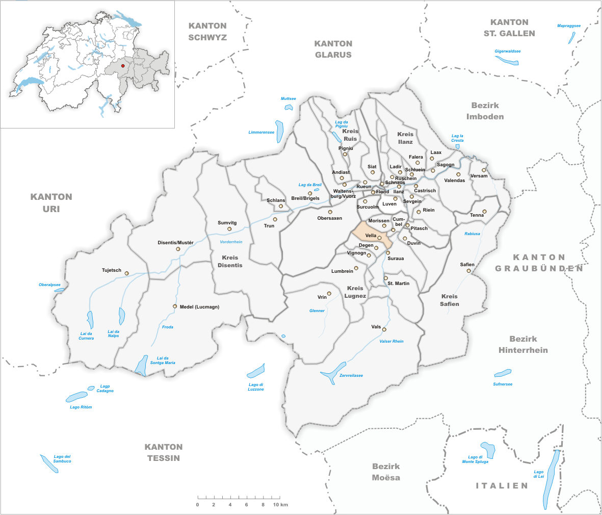 Municipality Vella